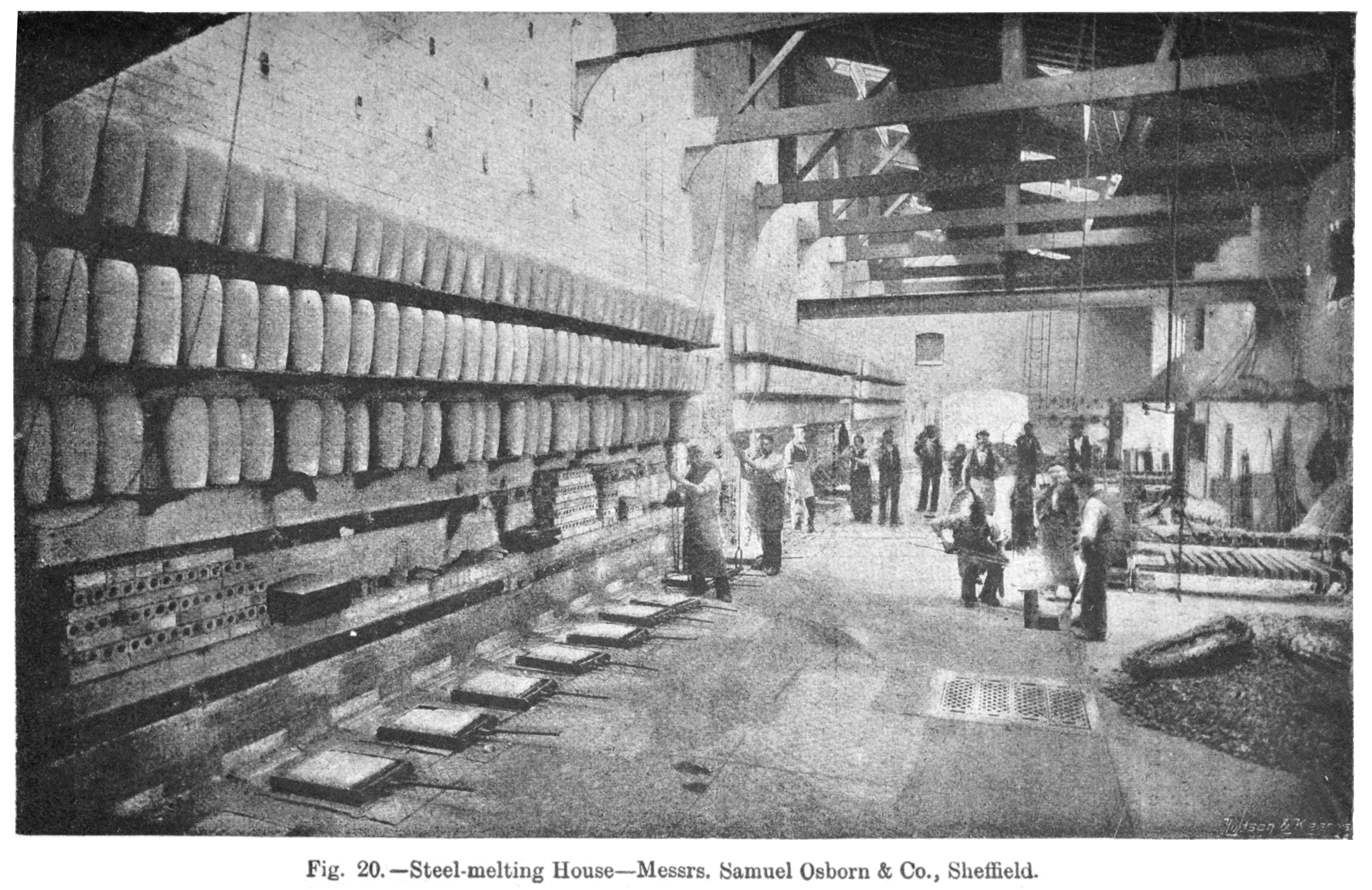 Steel melting house where was made crucible steel, Samuel Osborne & Co, Sheffield